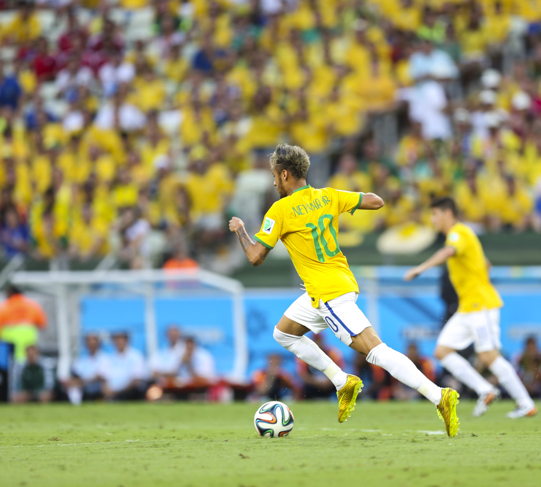 Brazil and Colombia match at the FIFA World Cup 2014-07-04